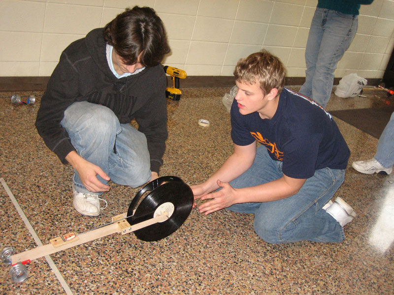 Wildeboer, J. Benjamin; Taken by author May, 2006